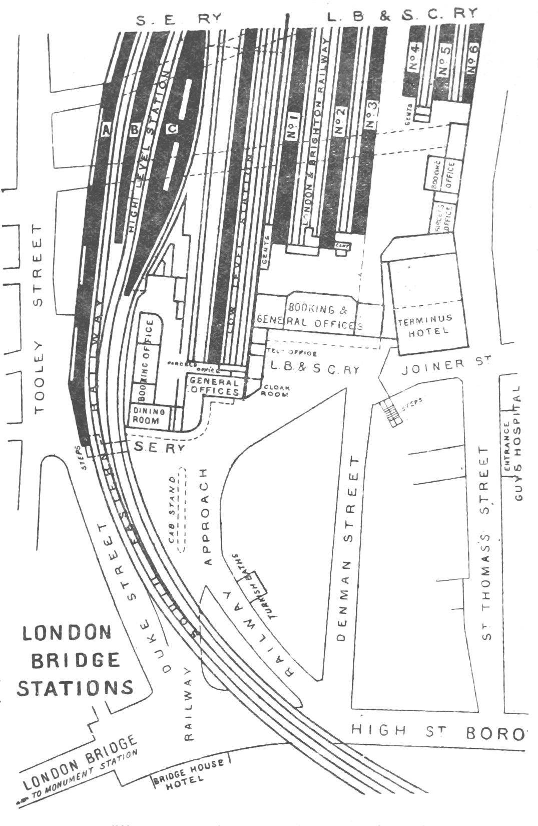 Plan of London Bridge station(s) as they were in 1888, with the South Eastern Railway's separate high- and low-level tracks, and the London, Brighton and South Coast Railway's new platforms 4, 5 and 6 and Terminus Hotel.